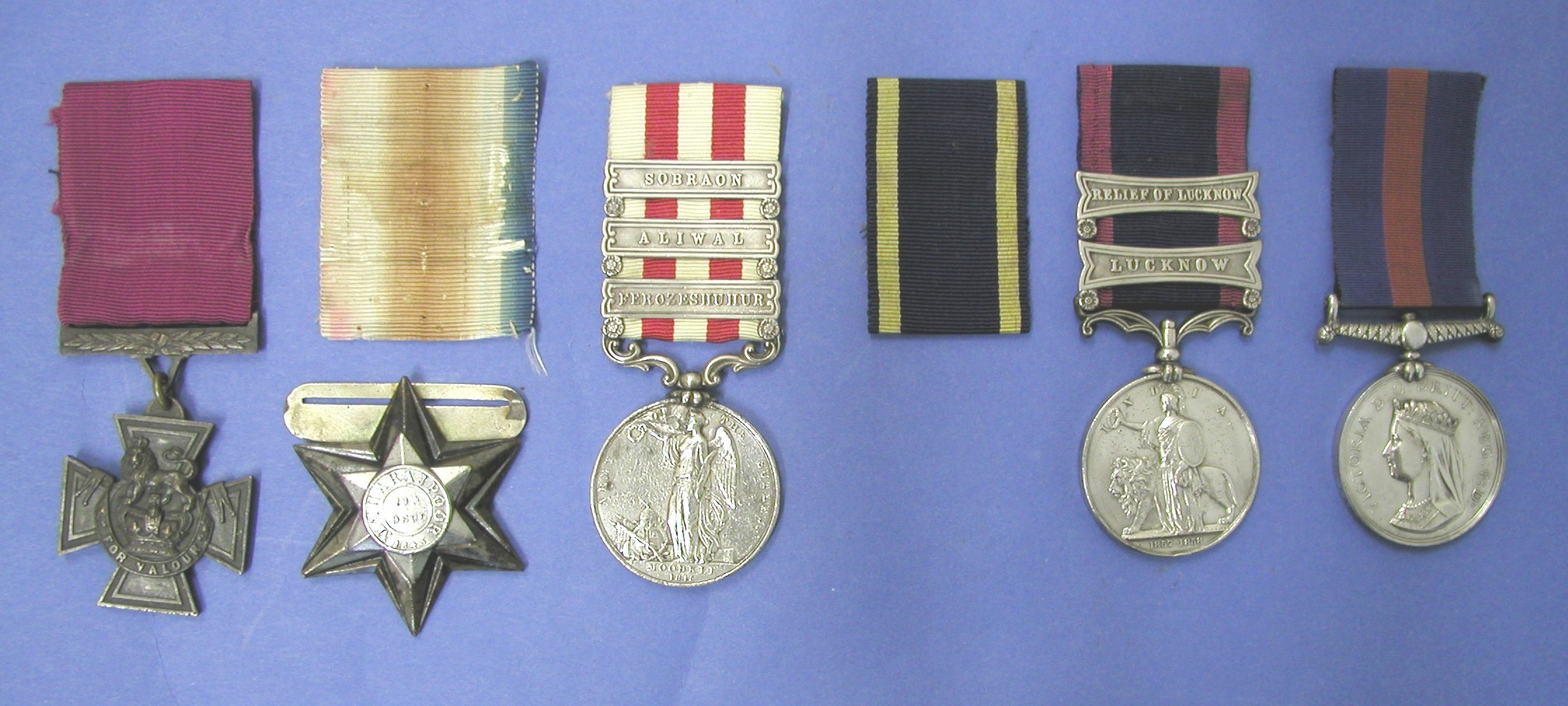 Victoria Cross awarded to Ensign Charles Pye, 53rd Regiment bronze cross patte, fixed loop and ring suspension attached to straight suspension bar (with V-lug) ornamented with laurel leaves, with ribbon obverse- bronze cross patte with line rim, at centre a crown surmounted by crowned lion, scroll below with motto- FOR VALOUR reverse- engraved with details of recipient and date of action recipient's name engraved on reverse suspension bar- ENSIGN CHARLES PYE - 53RD. REGT date engraved on reverse of medal- 17 NOVR. - 1857 ribbon- crimson grosgrain